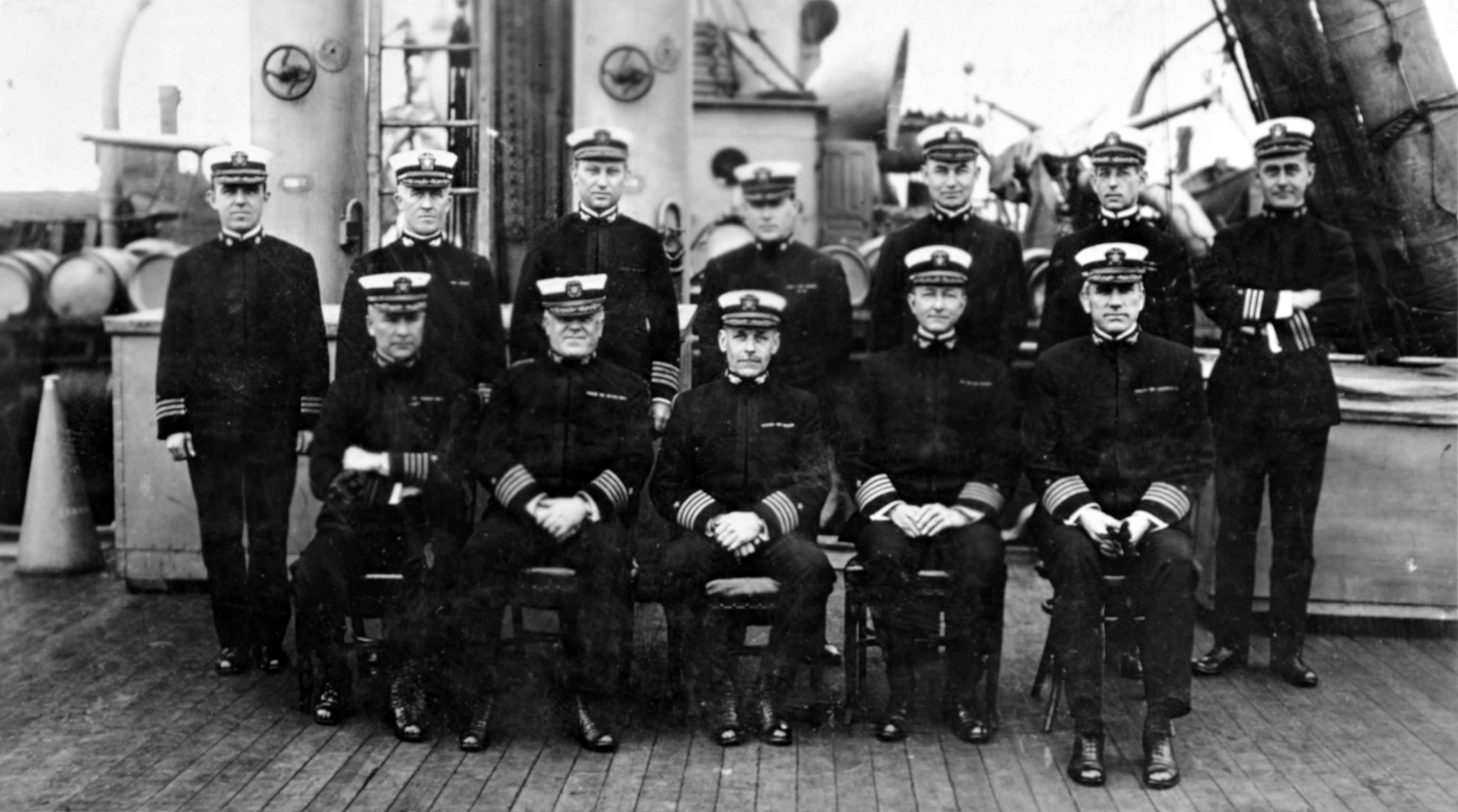 The officers of United States Navy Mine Squadron One during World War I. Seated in front row are (from left to right): Captain Wat T. Cluverius (1874-1952), Commanding Officer, USS Shawmut; Captain Clark D. Stearns (1870-1944), Commanding Officer, USS Roanoke; Captain Reginald R. Belknap (1871-1959), Commander, Mine Squadron One; Captain Henry V. Butler (1874-1957), Commanding Officer, USS San Francisco, and Captain Albert W. Marshall (1874-1958), Commanding Officer, USS Baltimore. Standing in back row are (from left to right): Commander Bruce L. Canaga (1882-1966), Aide to Commander Mine Squadron One; Captain Thomas L. Johnson ( ? - ? ), Commanding Officer, USS Canonicus; Captain James H. Tomb (1876-1946), Commanding Officer, USS Aroostook; Captain John W. Greenslade (1880 - 1950), Commanding Officer, USS Housatonic; Commander Sinclair Gannon (1877-1948), Commanding Officer, USS Saranac; Commander William Herbert Reynolds (1874-1937), Commanding Officer, USS Canandaigua; and Commander Daniel Pratt Mannix (1878-1957), Commanding Officer USS Quinnebaug. Mine Squadron One laid the American part of the North Sea Mine Barrage between June and October 1918.